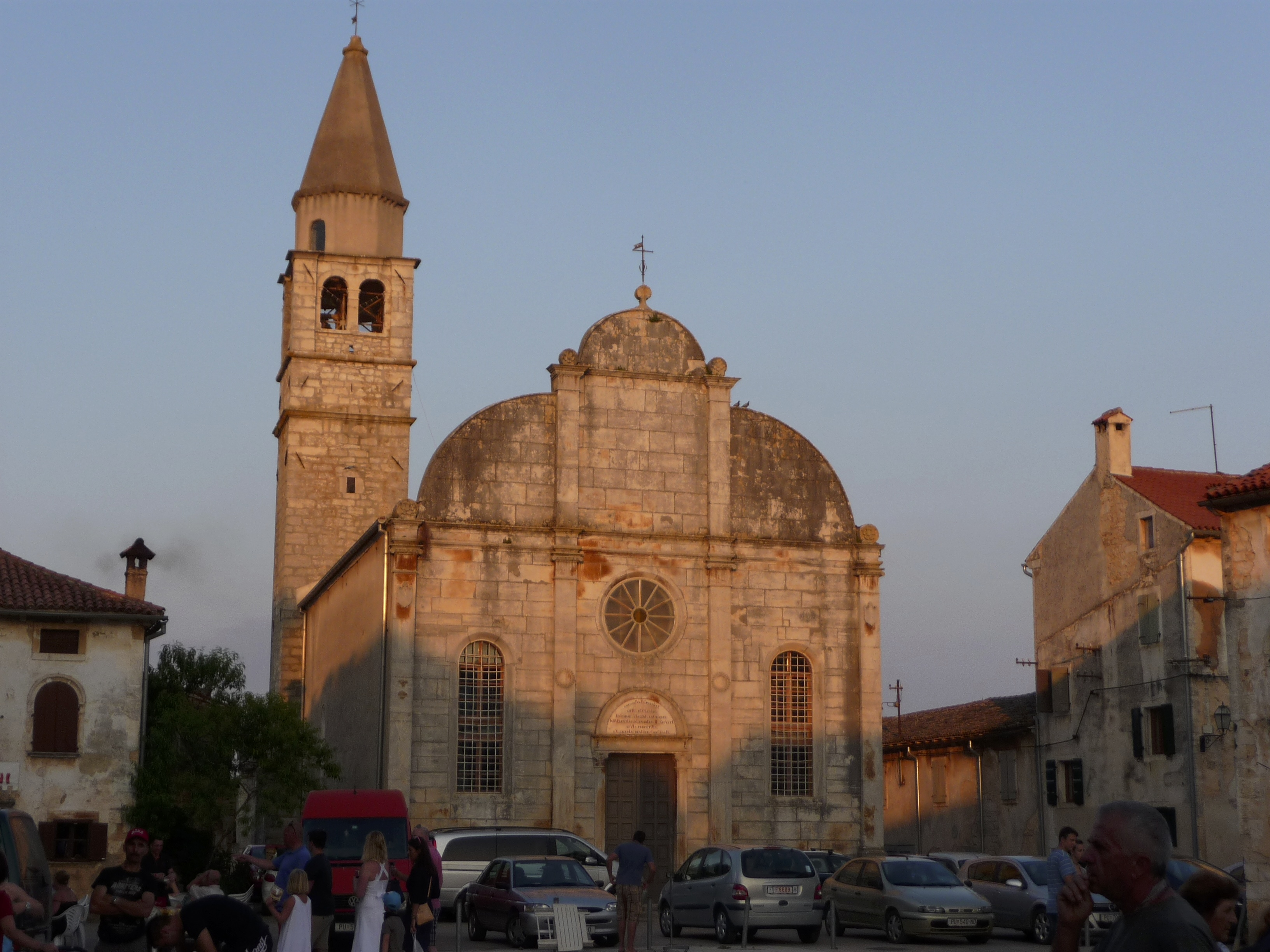 Church of the Annunciation, Histria, Croatia. Object location45° 05′ 16.44″ N, 13° 52′ 55.2″ E